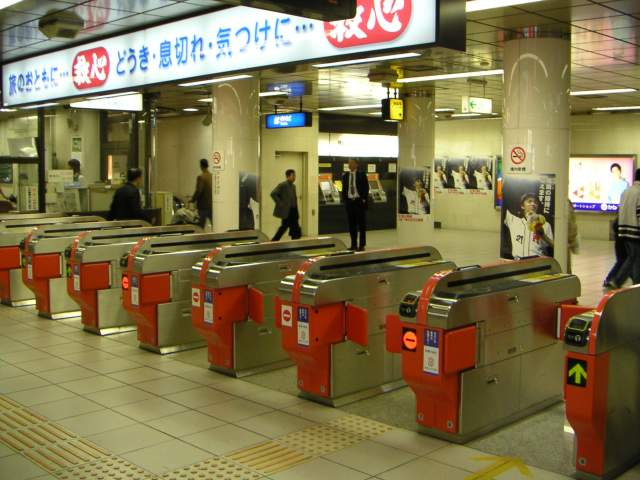 Fukuokakūkō Station wicket.